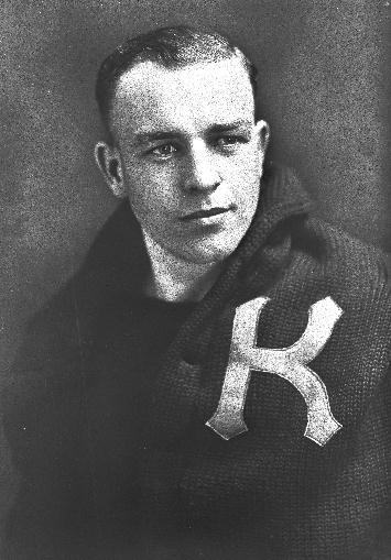 Paul Endacott (1902-1997), a well-known collegiate basketball player in the early 1920s for University of Kansas.